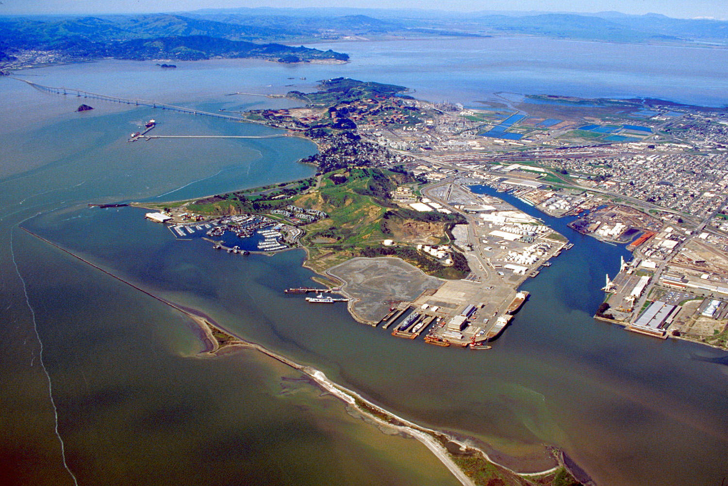 Aerial view of the western part of Richmond, California, USA. The Richmond-San Rafael Bridge stretches across San Francisco Bay. Marin County, California is visible on the hills across the bay. View is to the northwest. Coordinates: 37°56′30″N 122°23′32″W / 37.94167°N 122.39222°W